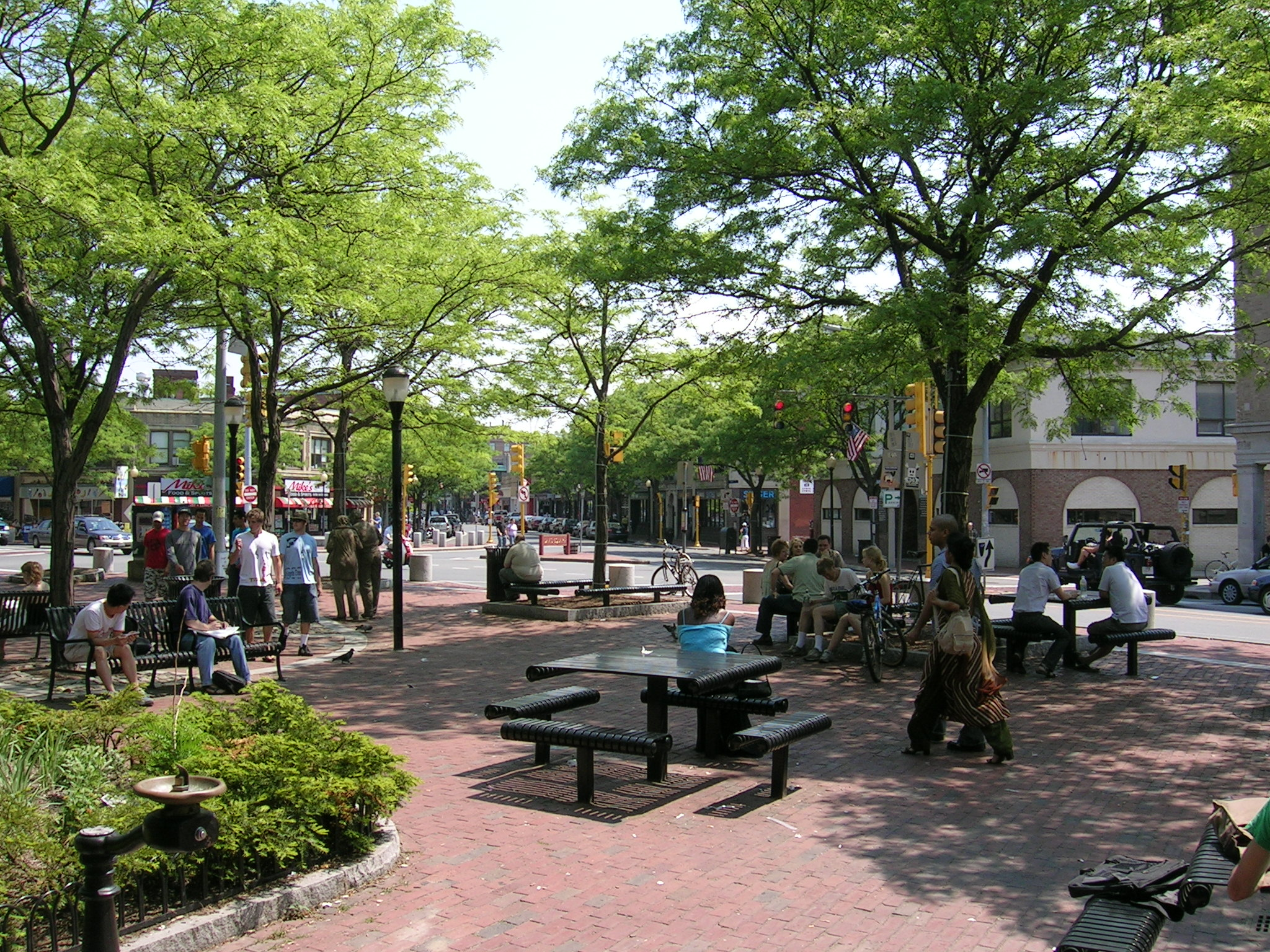 Photo of Davis Square, Somerville MA, USA, in summertime, central picnic area in the foreground and street intersection in the background.